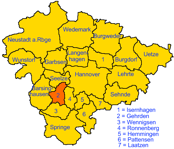 Location of Gehrden in Region Hannover